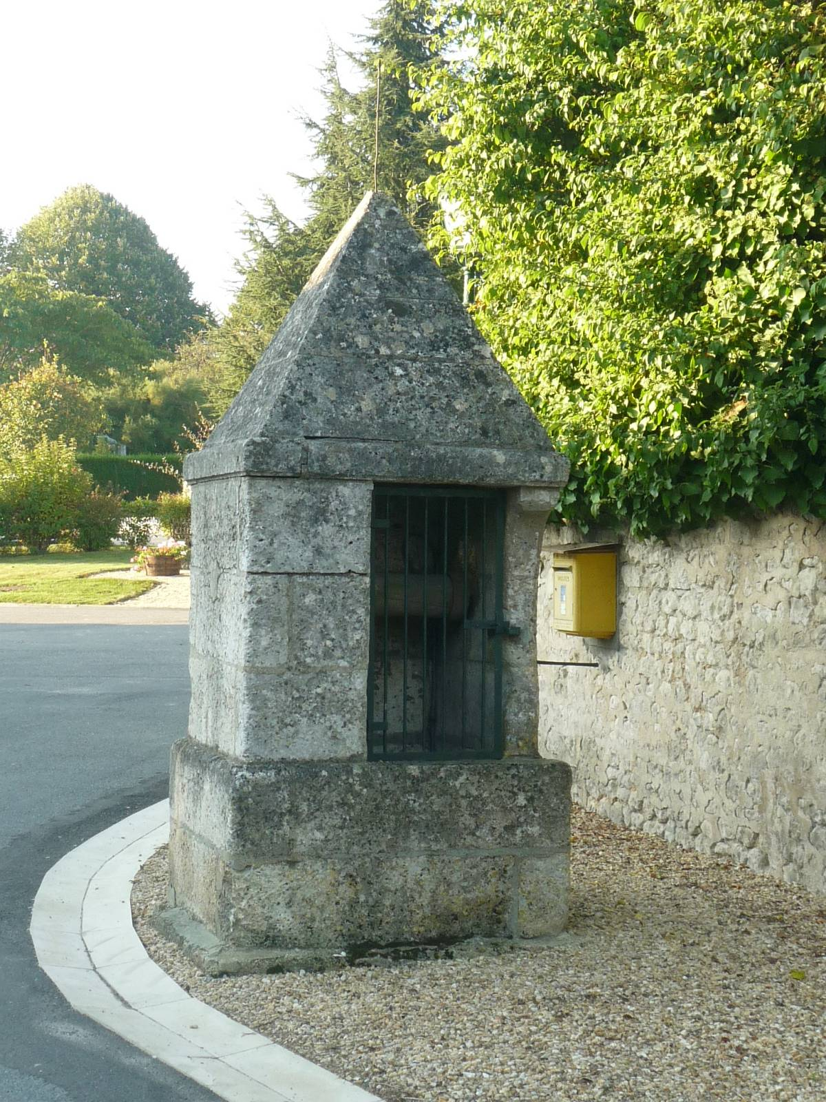 well at Nonac, Charente, SW France